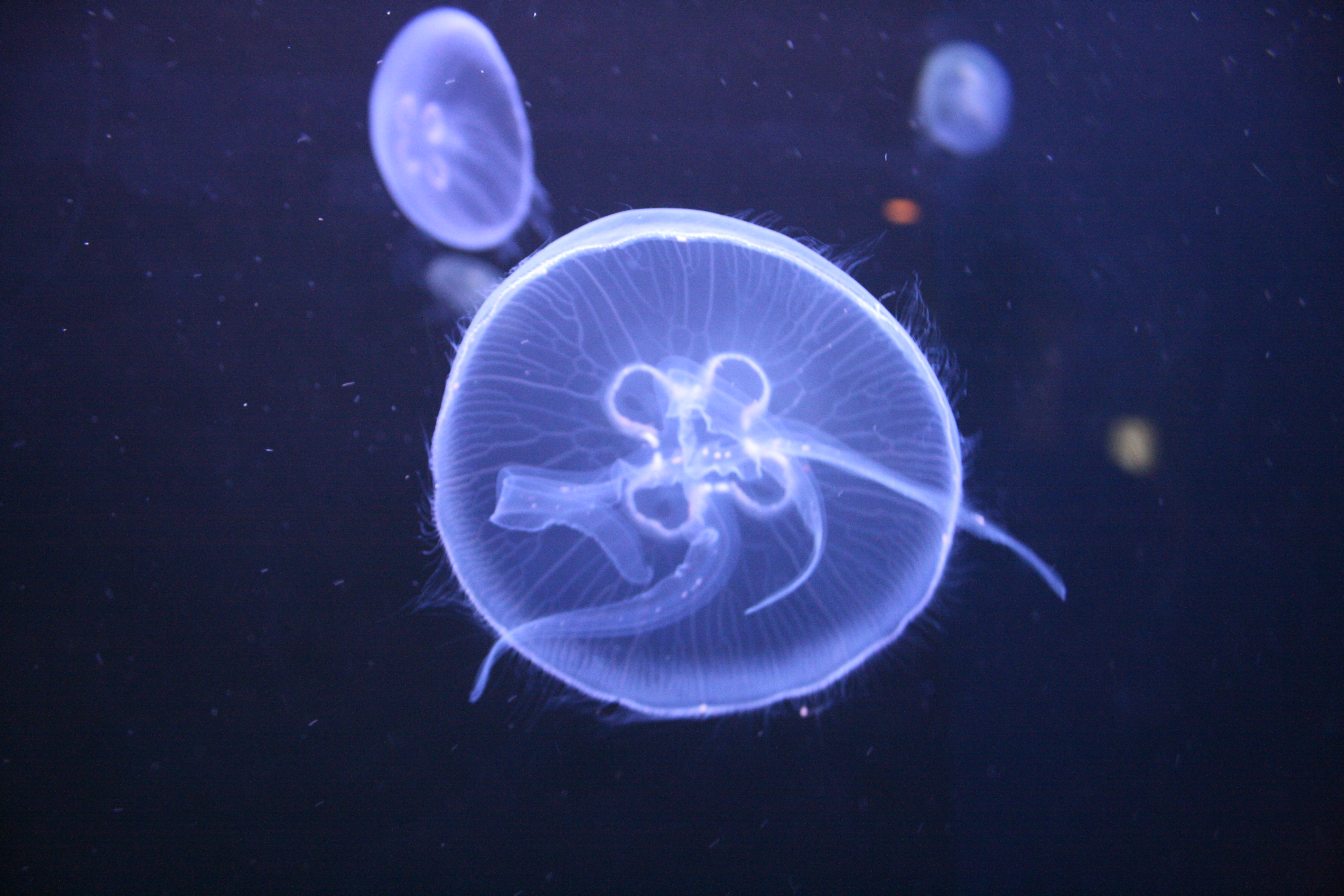 Moon jelly ((Aurelia aurita), photo taken in Zoo Basel (Switzerland).